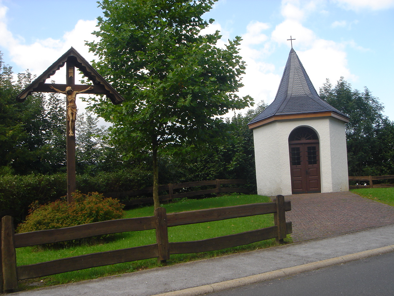 Chapel in Balve